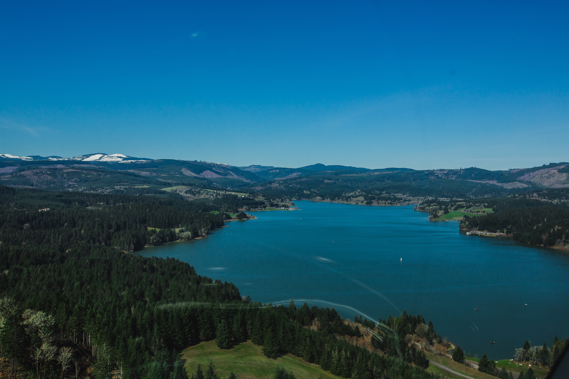 Aerial shot of Hagg Lake